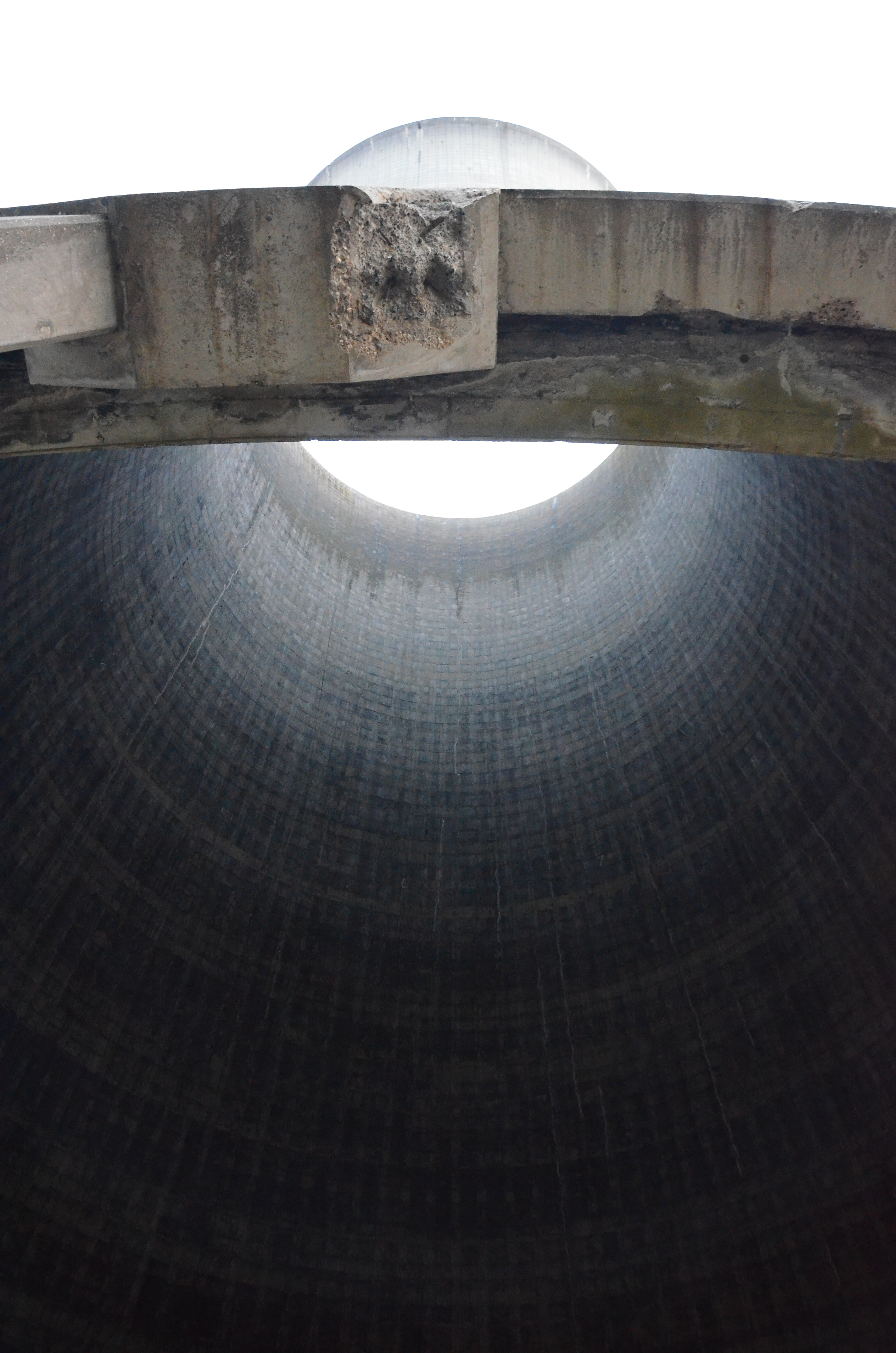 A view up one of three cooling towers at Richborough Power Station, prior to their demolition